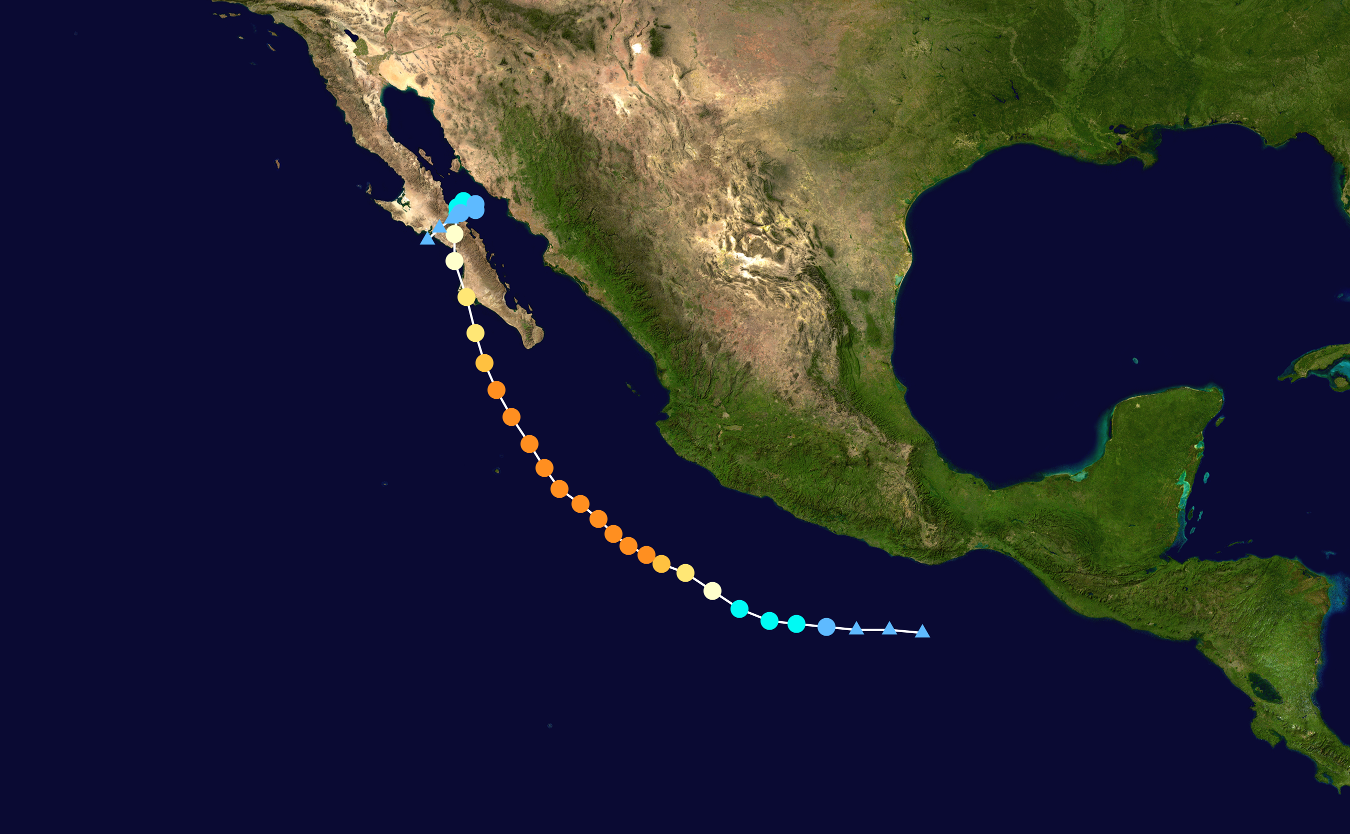 Track map of Hurricane Jimena of the 2009 Pacific hurricane season. The points show the location of the storm at 6-hour intervals. The colour represents the storm's maximum sustained wind speeds as classified in the Saffir–Simpson scale (see below), and the shape of the data points represent the nature of the storm, according to the legend below. Saffir–Simpson scale Tropical depression≤38 mph≤62 km/h Category 3111–129 mph178–208 km/h Tropical storm39–73 mph63–118 km/h Category 4130–156 mph209–251 km/h Category 174–95 mph119–153 km/h Category 5≥157 mph≥252 km/h Category 296–110 mph154–177 km/h Unknown Storm type Tropical cyclone Subtropical cyclone Extratropical cyclone / Remnant low / Tropical disturbance / Monsoon depression